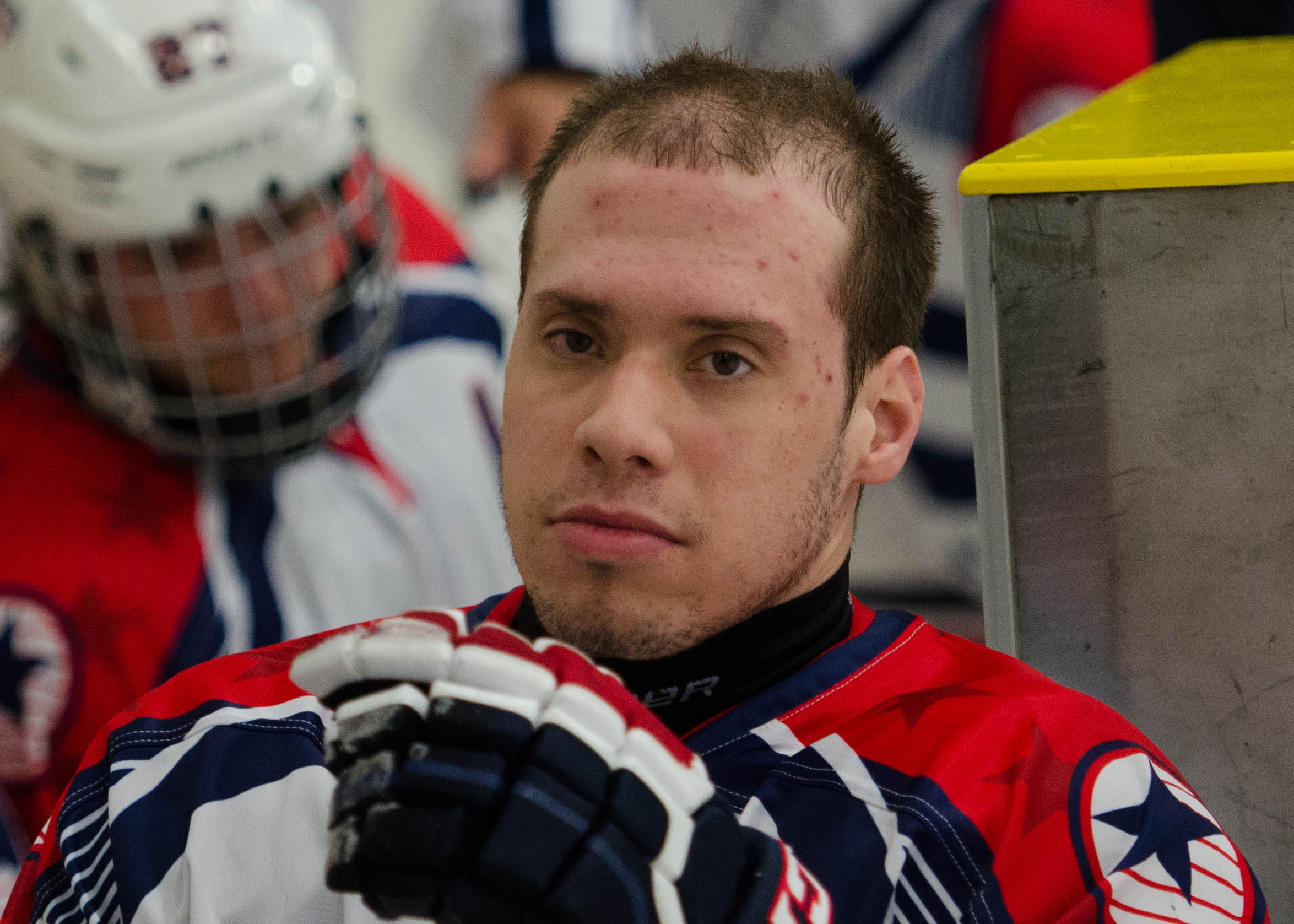 Dan McCoy in 2015